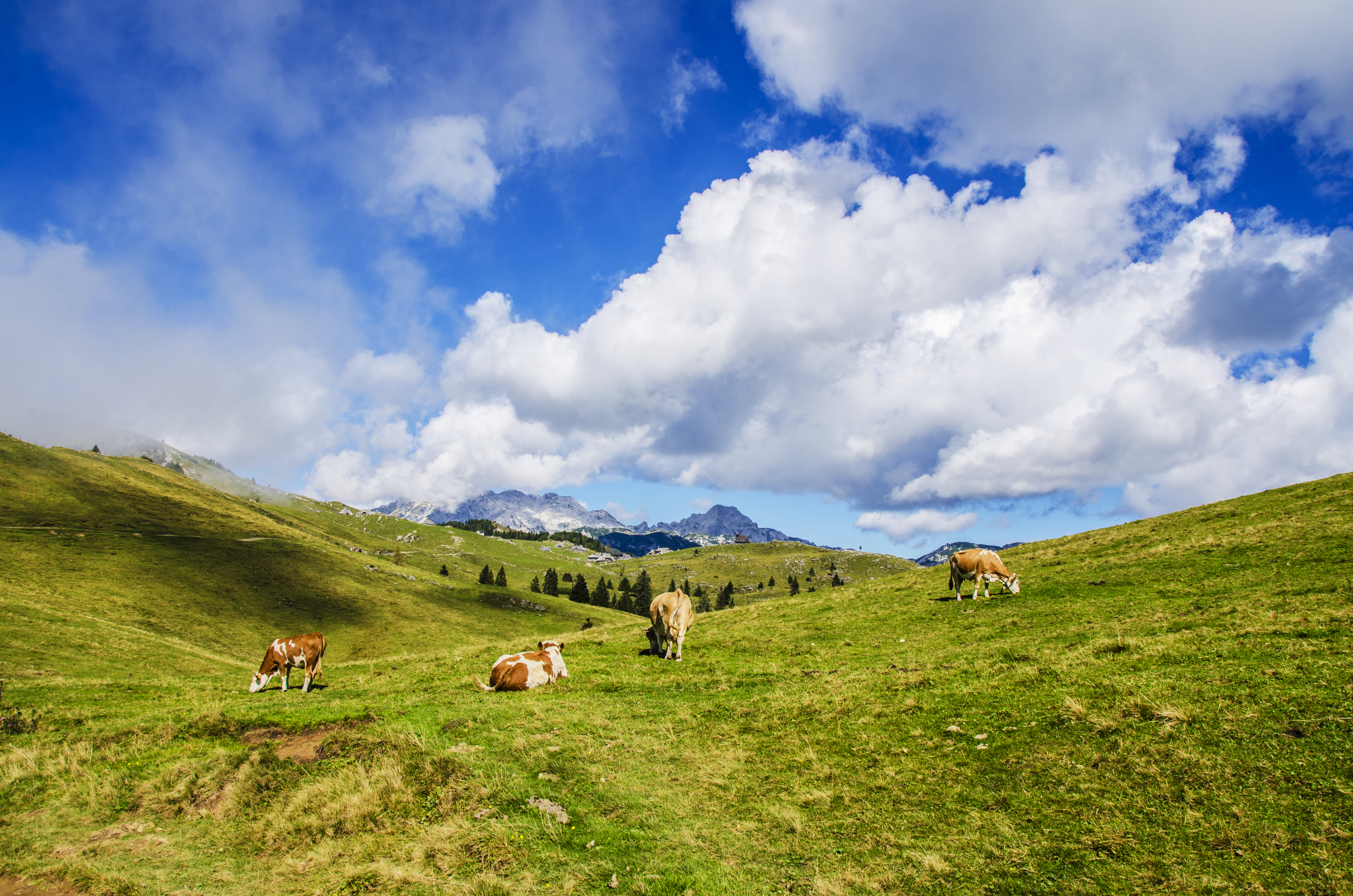 Velika planina.